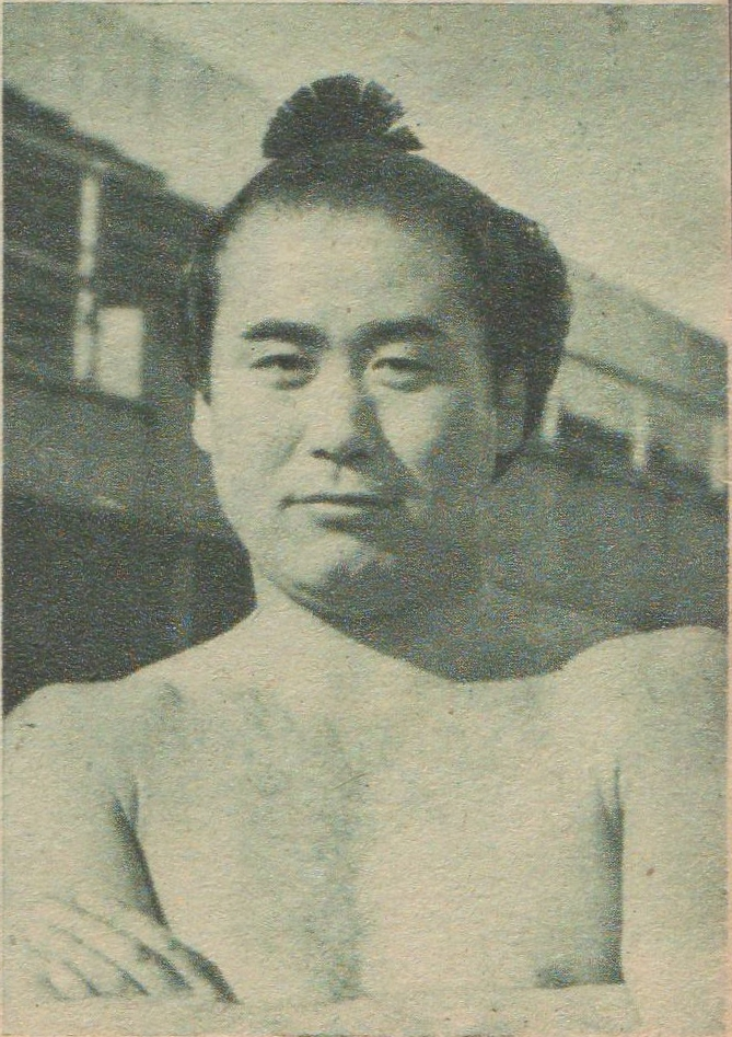 Dewanohana Yoshihide (Sumo wrestler from Japan. Maegashira). Shooting earlier than 1955.